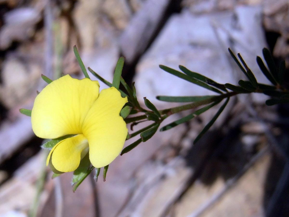 possibly Gompholobium glabratum. Soldiers Point track, Ku-ring-gai Chase National Park, Australia